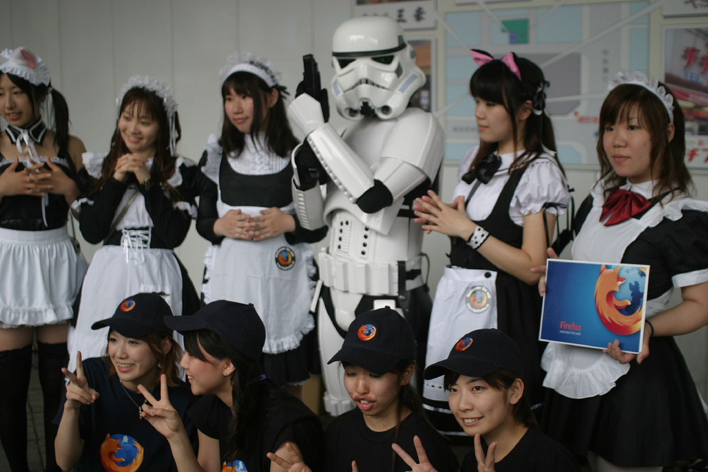 GetFirefox.jp being advertised in Akihabara (the Stormtrooper was an impromptu addition to the group that got a lot of giggles from the girls).